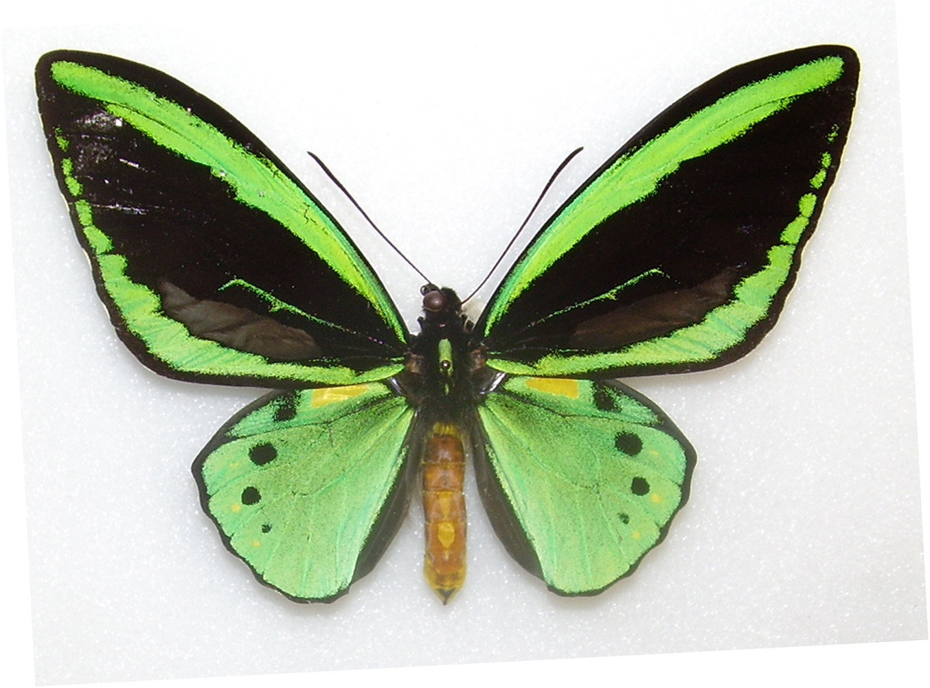 Ornithoptera priamus pronomus Lockerbie Scrub Cape York Peninsula Australia 25 August 1975